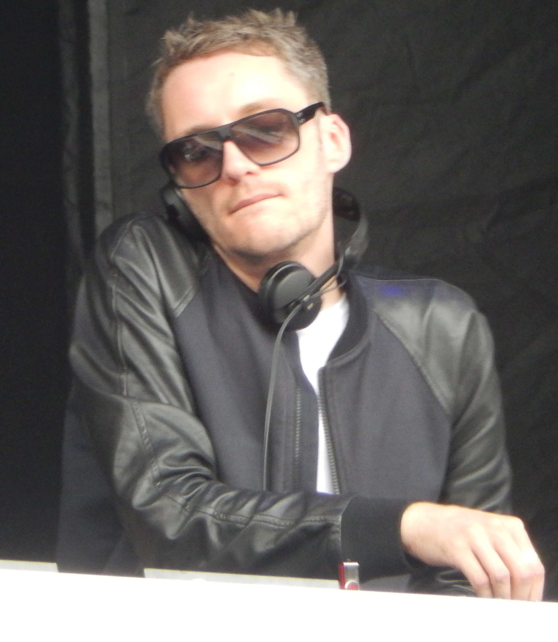 Alex Metric @ Spring Awakening 6/14/2014